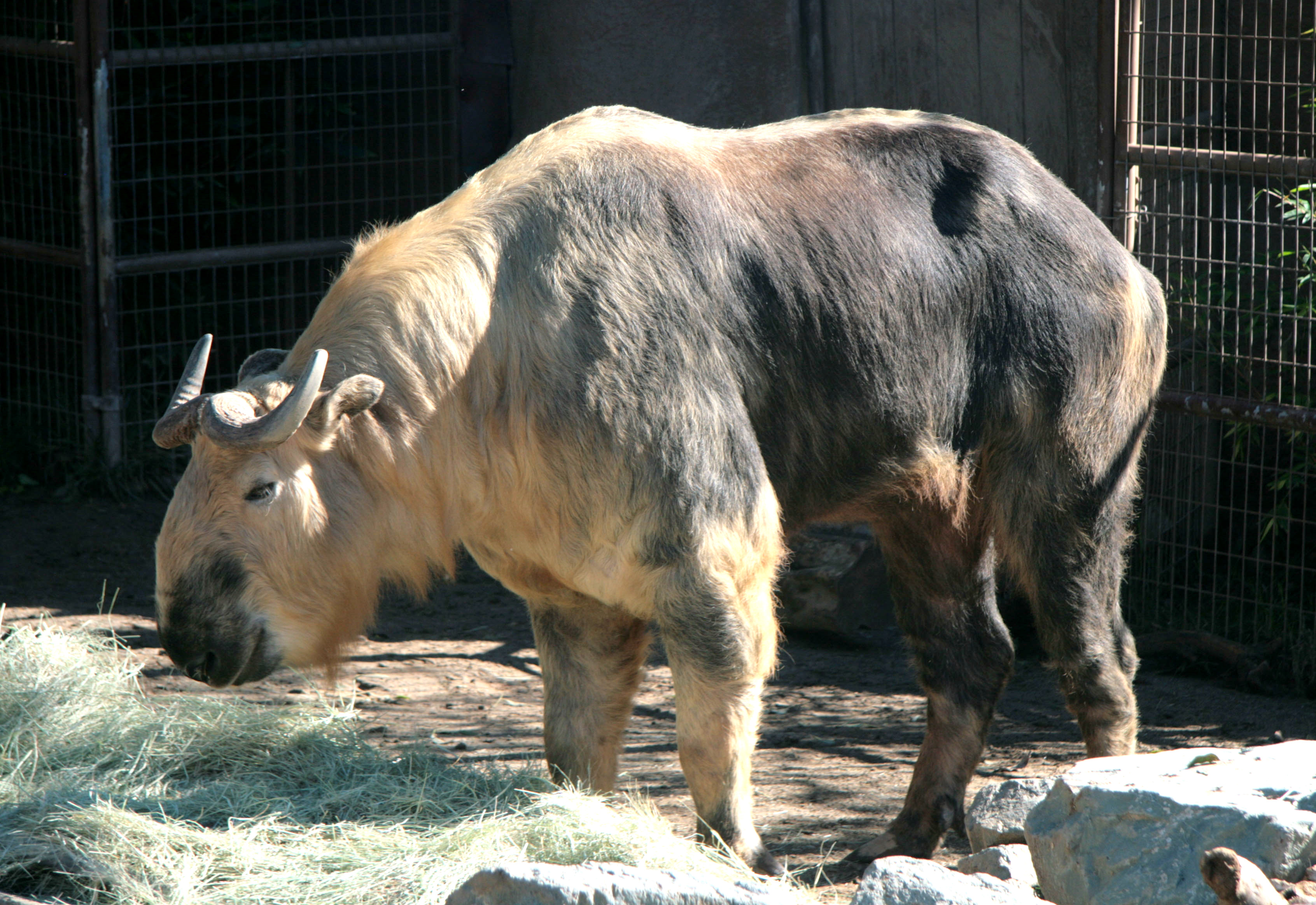 Photograph of adult Sichuan Takin at San Diego Zoo.